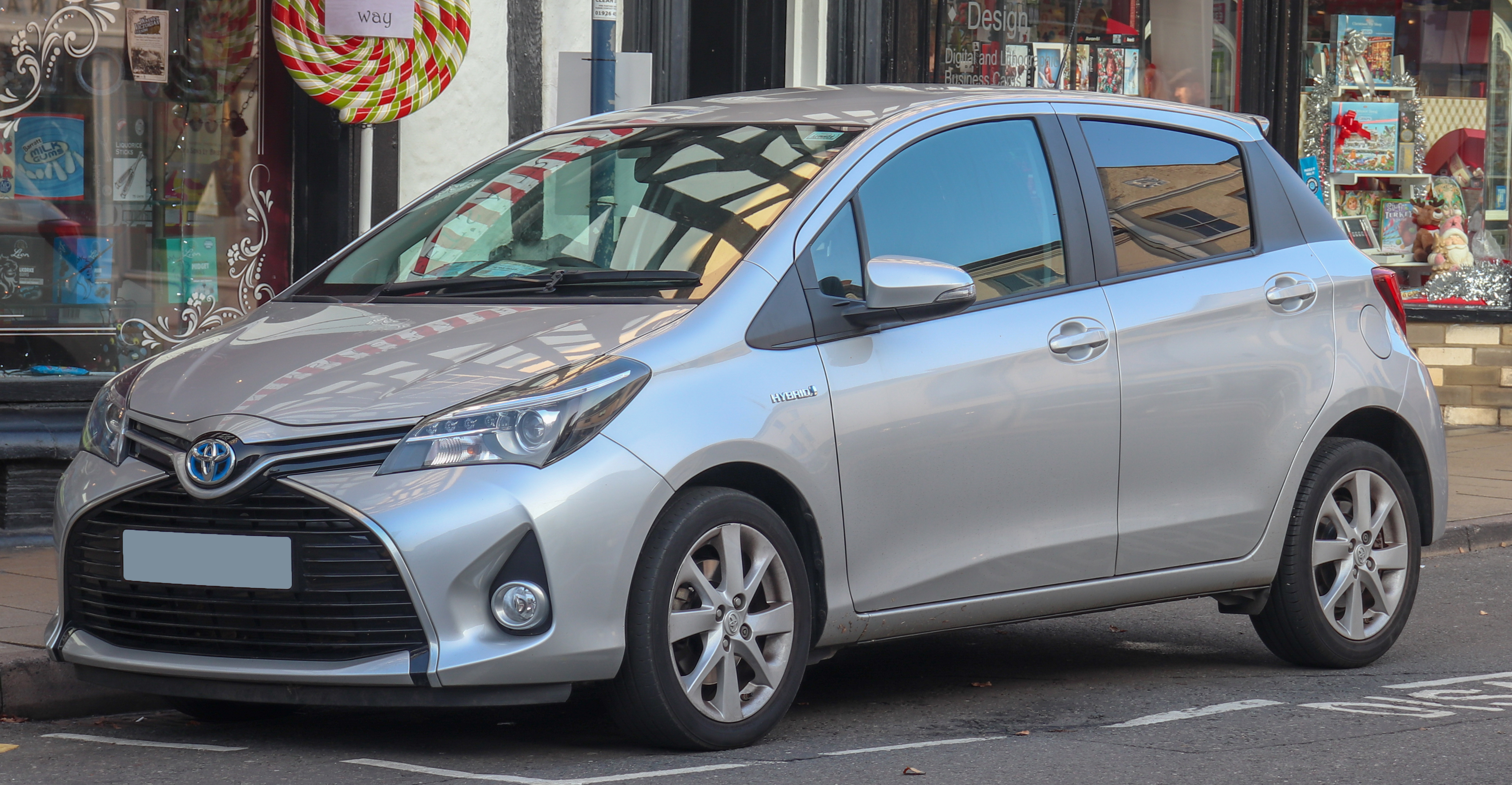 2015 Toyota Yaris Sport Hybrid VVT-I 1.5 Front Taken in Warwick